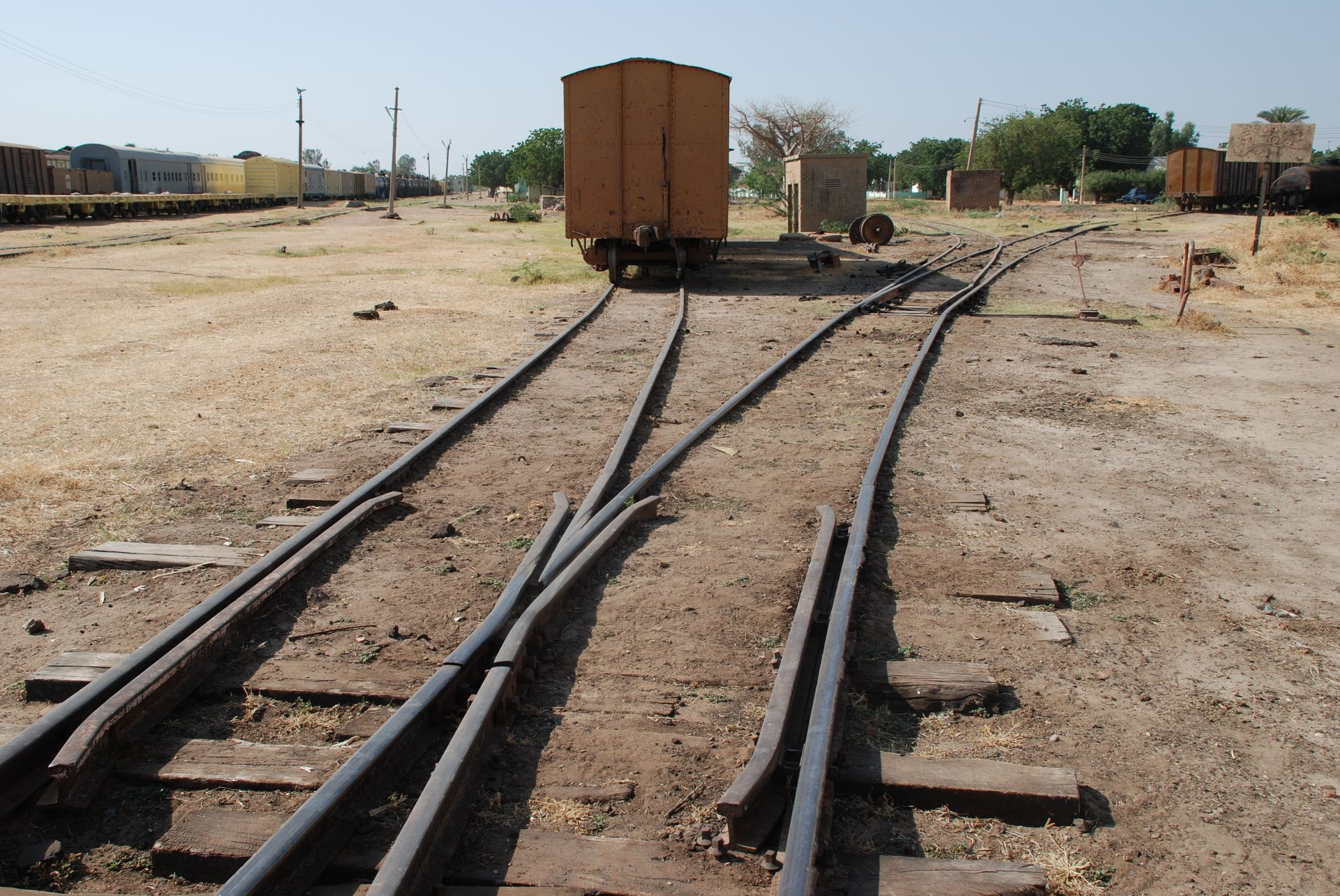 Kosti, Sudan. Cape gauge